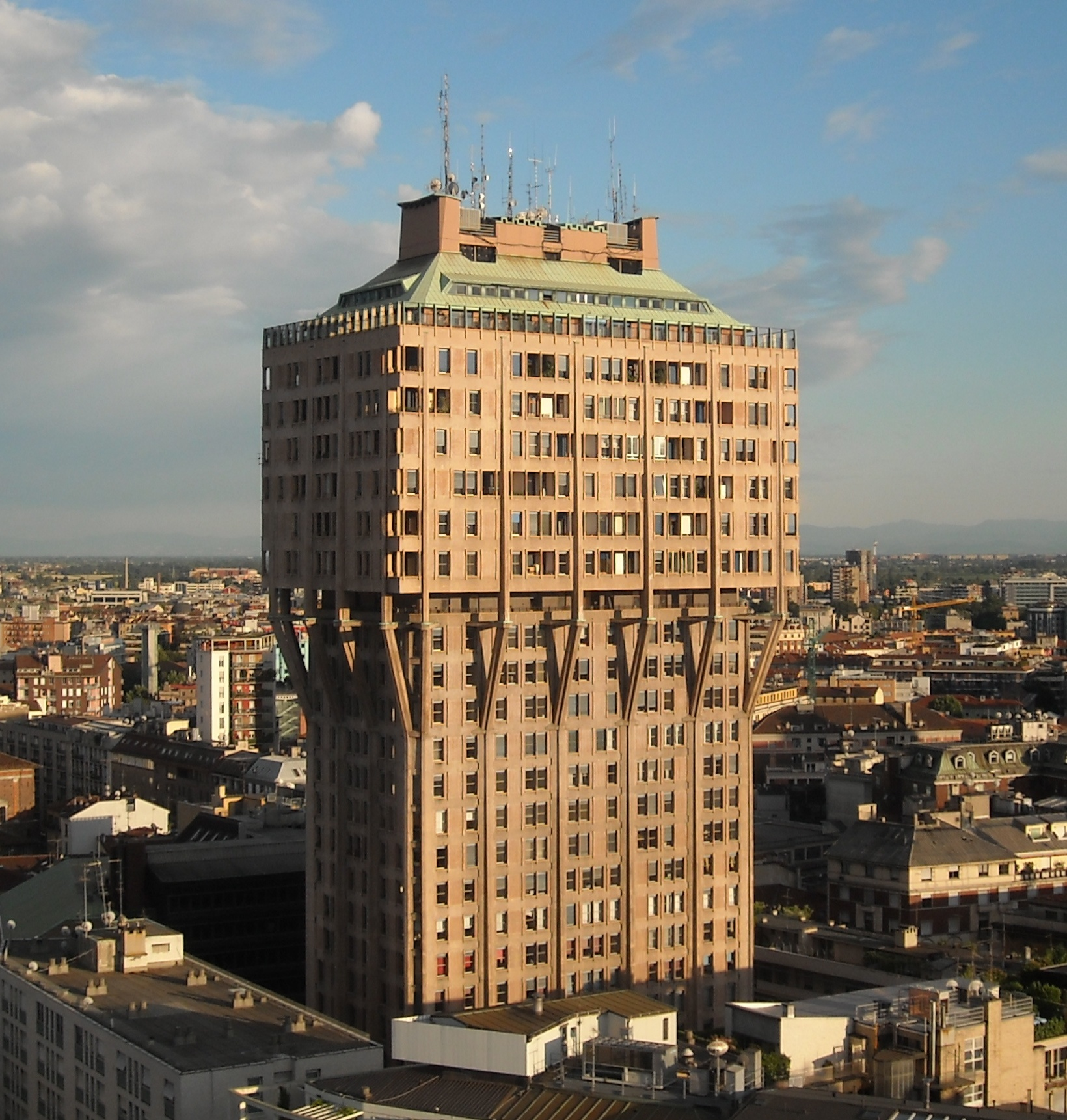 Picture showing Torre Velasca in Milan, Italy.